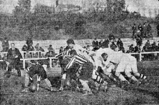 Real Madrid and Athlétic (striped jersey) rugby teams while playing a match in 1925.